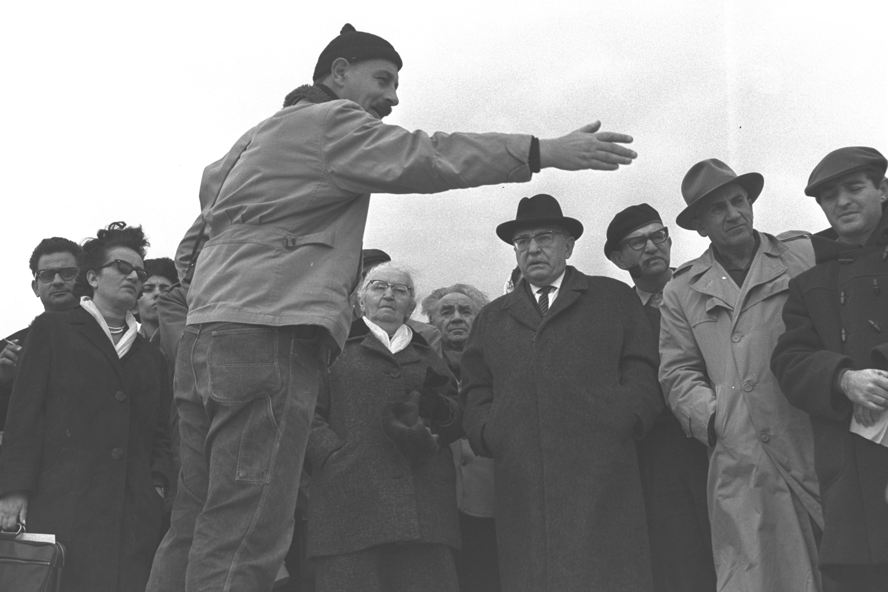 PROF. YIGAEL YADIN EXPLAINING THE RESTORATION WORK AT MASSADA TO PRESIDENT ZALMAN SHAZAR, HIS WIFE & NEWSPAPER EDITORS.